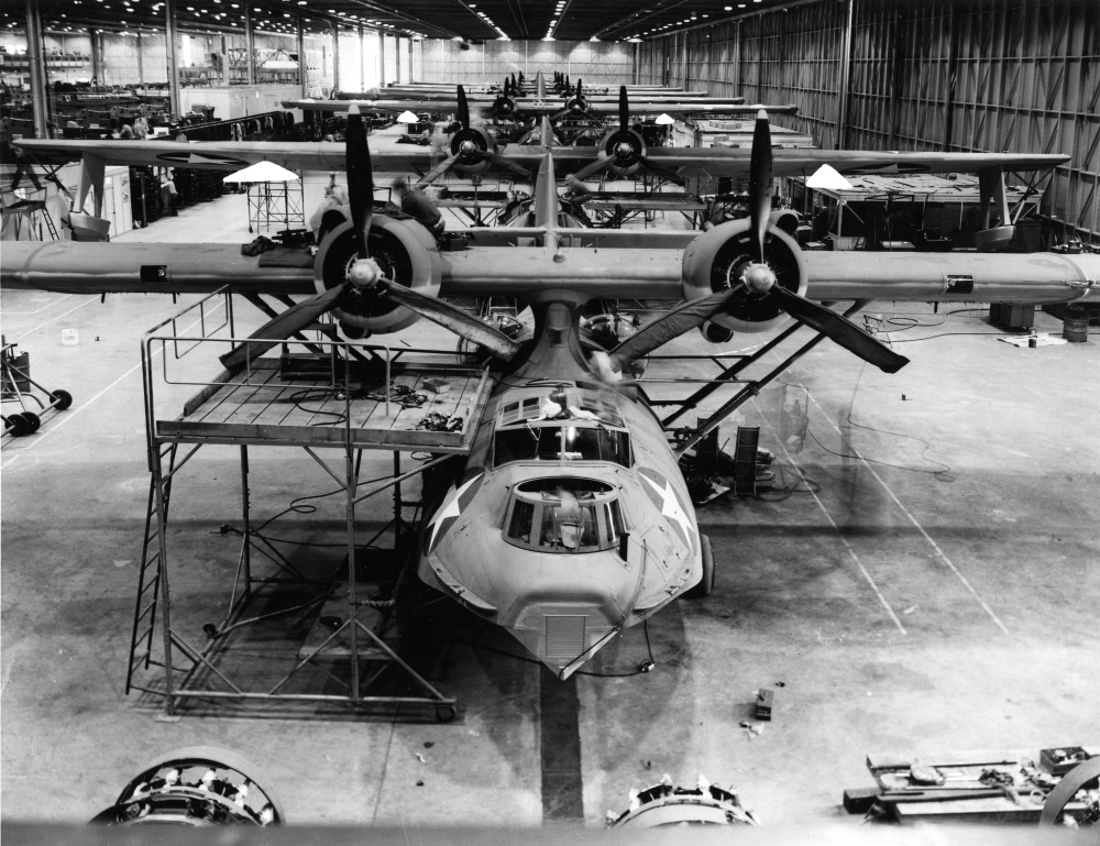 PictionID:41554437 - Title:Consolidated PBY-5 production line 1942 mfr N4454 - Catalog:16_000569 - Filename:16_000569.tif - - - - - - Image from the Ray Wagner Collection. Ray Wagner was Archivist at the San Diego Air and Space Museum for several years and is an author of several books on aviation --- ---Please Tag these images so that the information can be permanently stored with the digital file.---Repository: San Diego Air and Space Museum